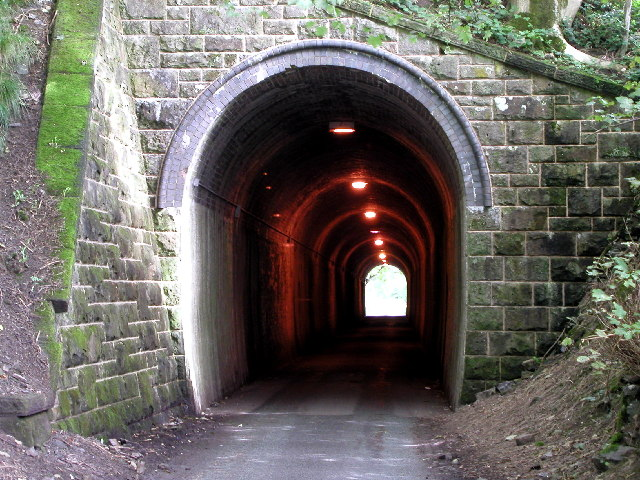 Old railway tunnel - new road tunnel. This old railway tunnel is now used as a road/footpath in the Manifold Valley.